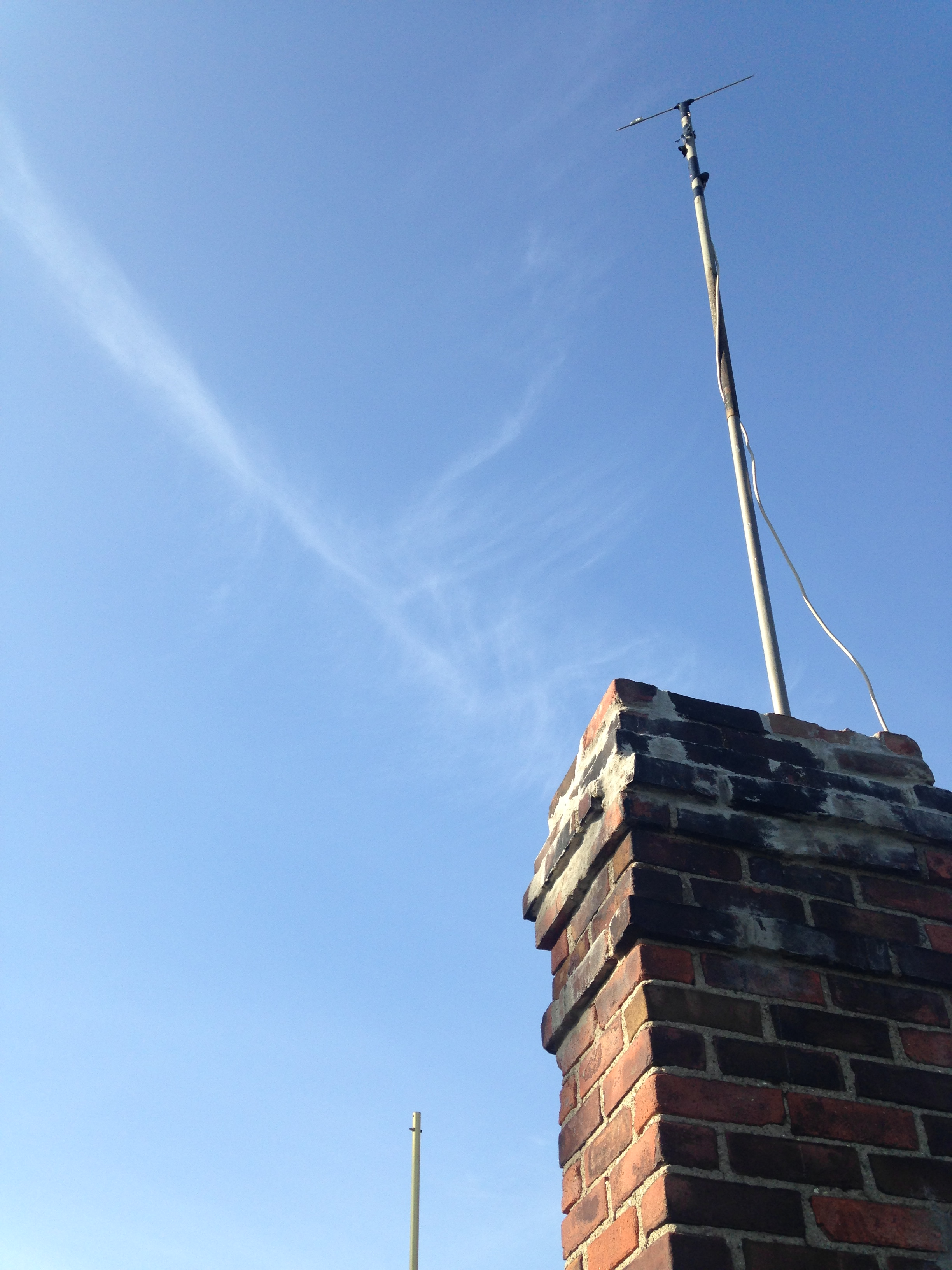 A basic dipole rabbit ear antenna weatherproofed and installed outdoors at height, receives full power stations at about 60 miles (97 km).